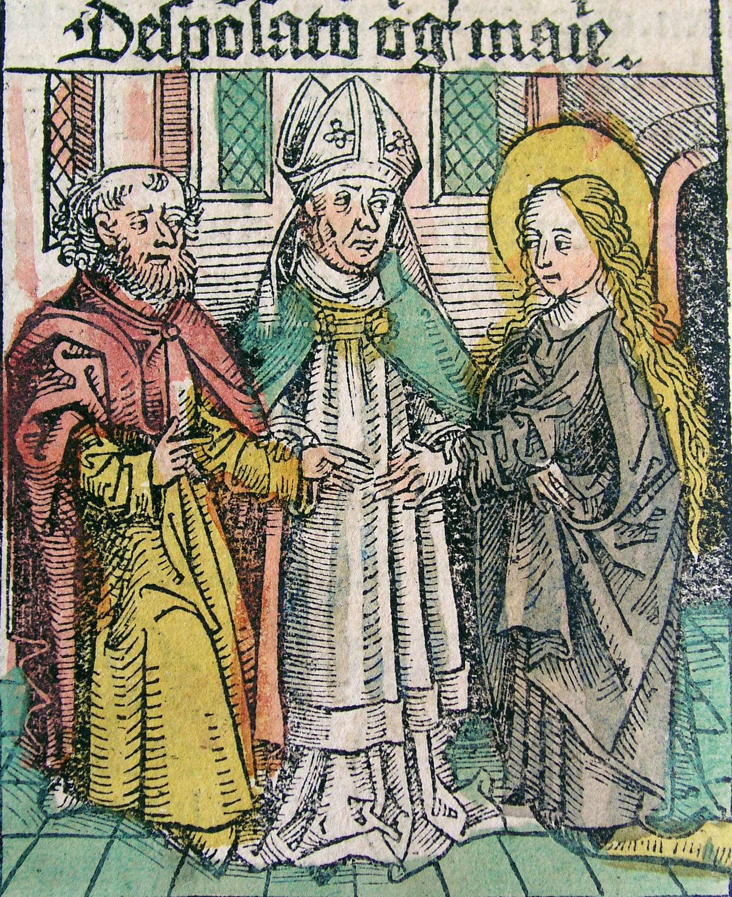 from [1]